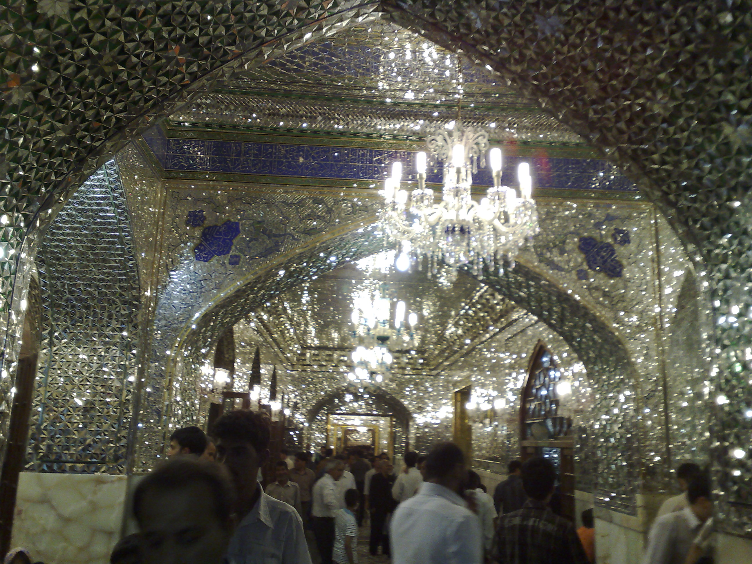 Mirrored rooms at Islamic Imam Reza mausoleum — in Razavi Khorasan province, Iran.